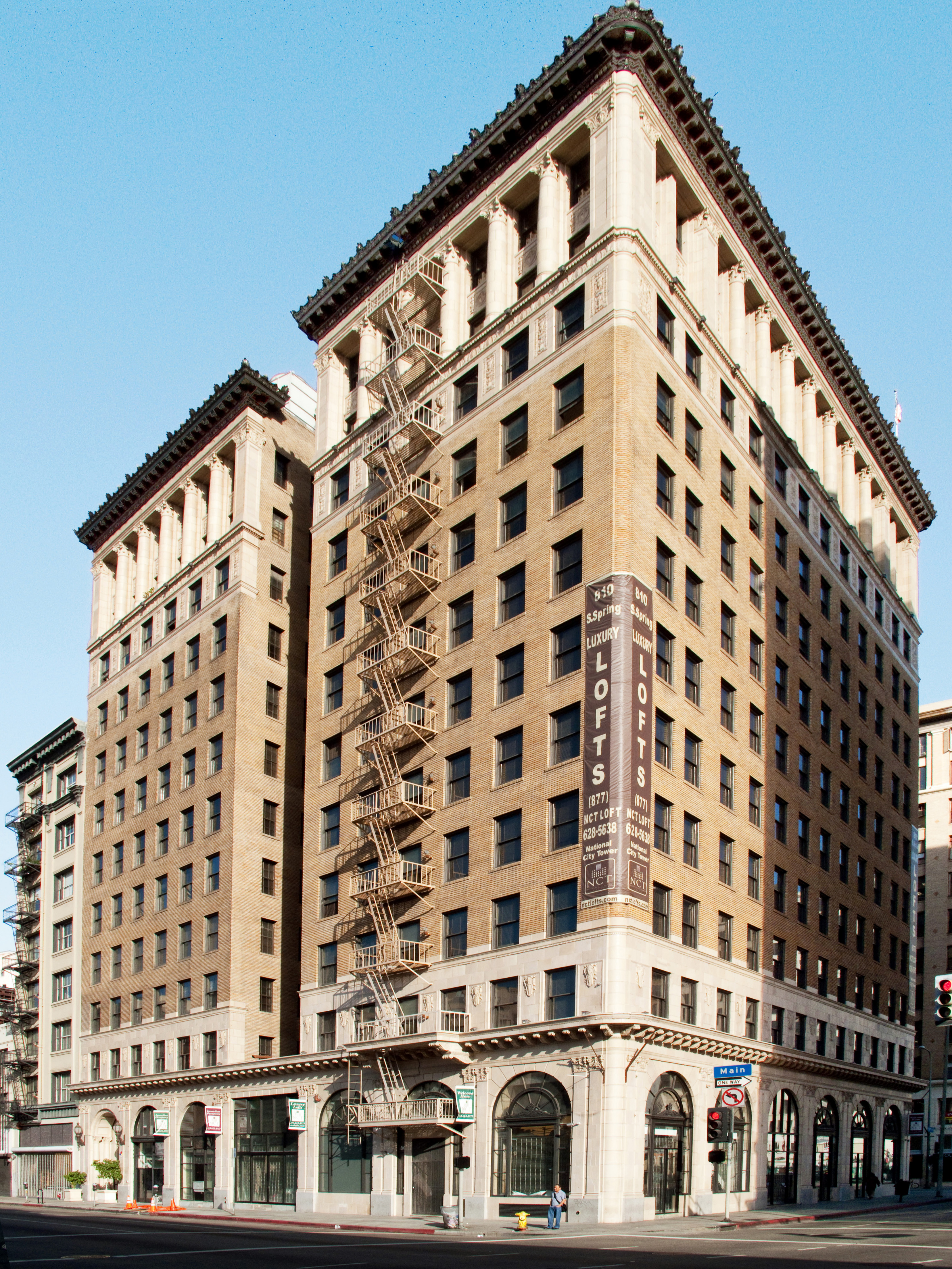 810 South Spring Street Building, Downtown Los Angeles. This view is of the east side of the building. The building was designed by architects Albert R. Walker and Percy A. Eisen.